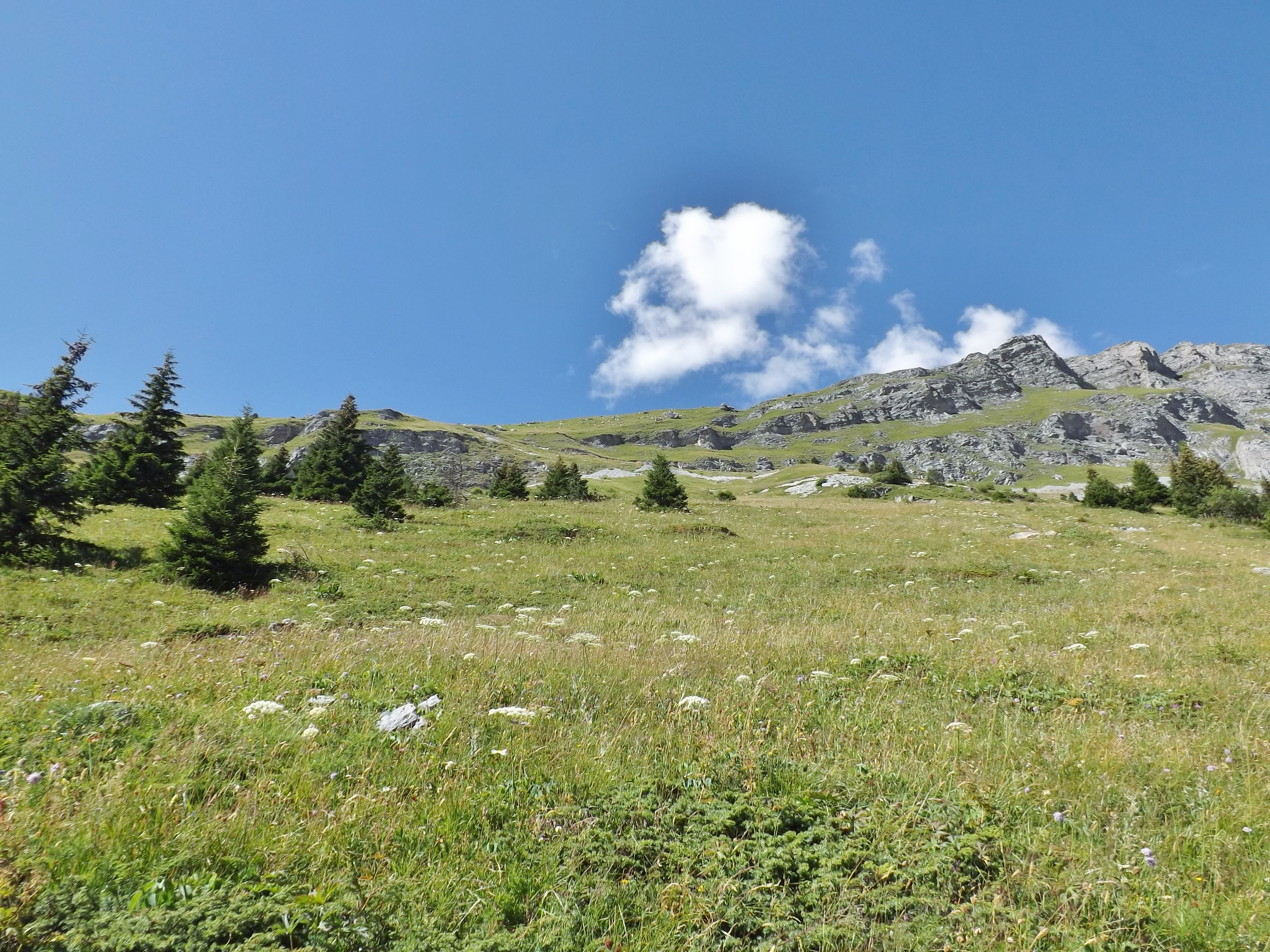 Sight of the Mont Bochor slopes, from the balcony footpath to the Vanoise pass, on the heights of Pralognan-la-Vanoise, in Savoie, France.